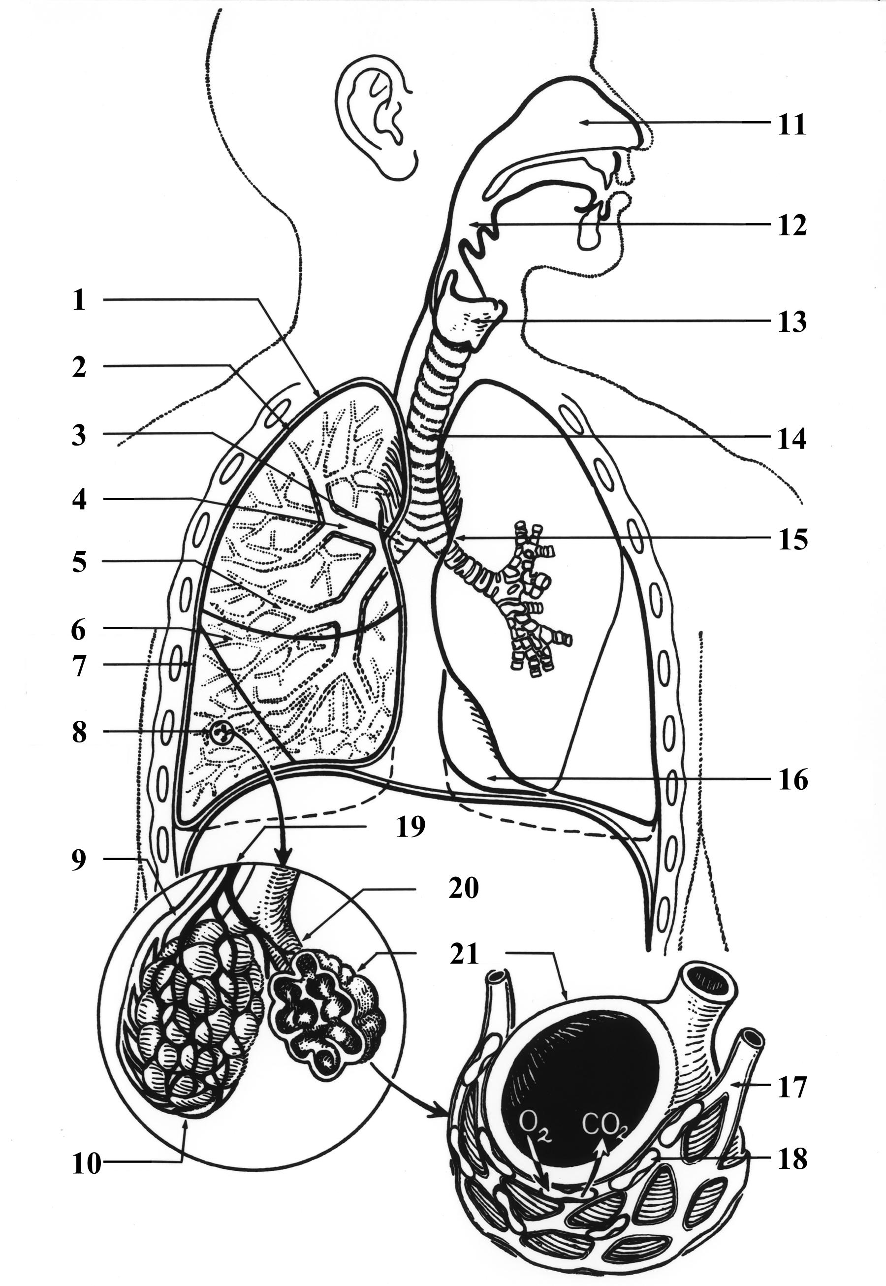 Respiratory system: 1 Parietal pleura - 2 Visceral pleura - 3 Primary bronchus - 4 Secondary bronchi - 5 Tertiary bronchi - 6 Bronchiole - 7 Pleural space - 8 Terminal bronchiole - 9 Pulmonary vein - 10 Alveolar sac - 11 Nasal cavity - 12 Pharynx - 13 Larynx - 14 Trachea - 15 Hilus - 16 Mediastinal surface - 17 Capillary - 18 Red blood cell - 19 Pulmonary artery - 20 Alveolar duct - 21 Alveolus